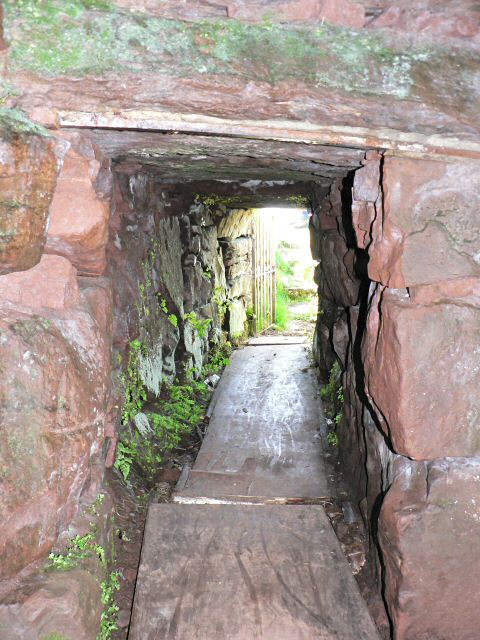 Vinquoy cairn entrance passage. This is the entrance passage seen from inside the cairn. It has been lit by the camera flash, otherwise it is almost completely dark inside. The boards on the ground make it easy to crawl into the cairn without getting dirty.